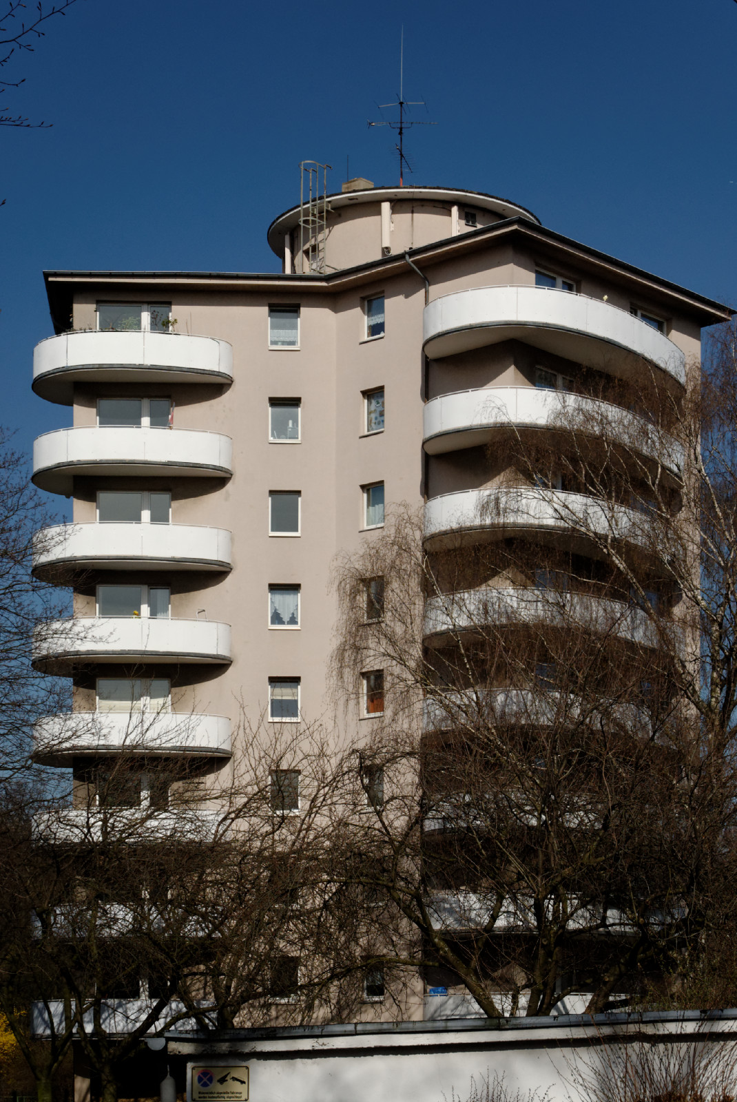 Building Hansaallee 65 in Düsseldorf-Oberkassel, Germany